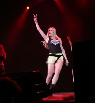 Ashley Roberts at the Tacoma Dome in Washington.